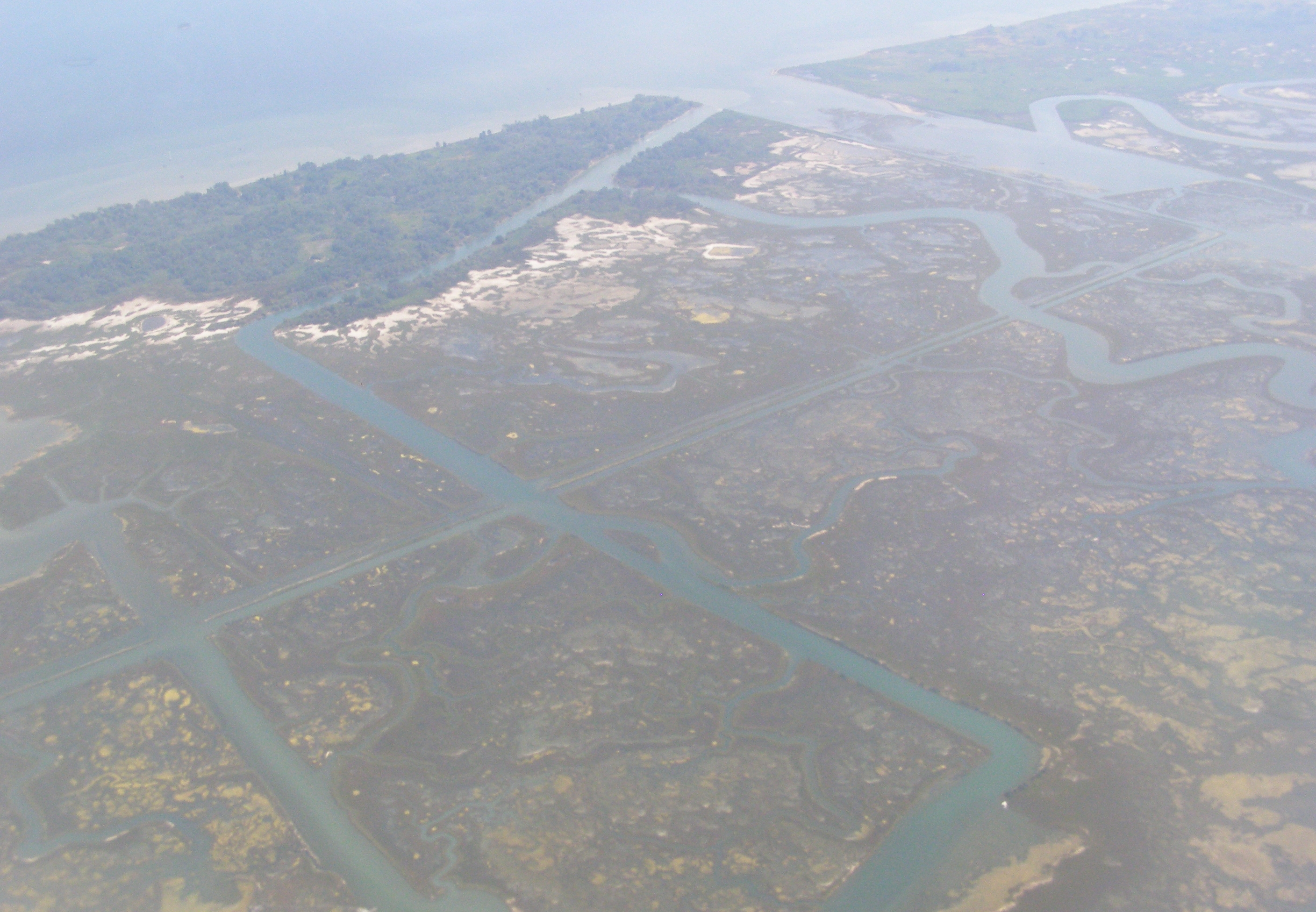 Venetian Lagoon